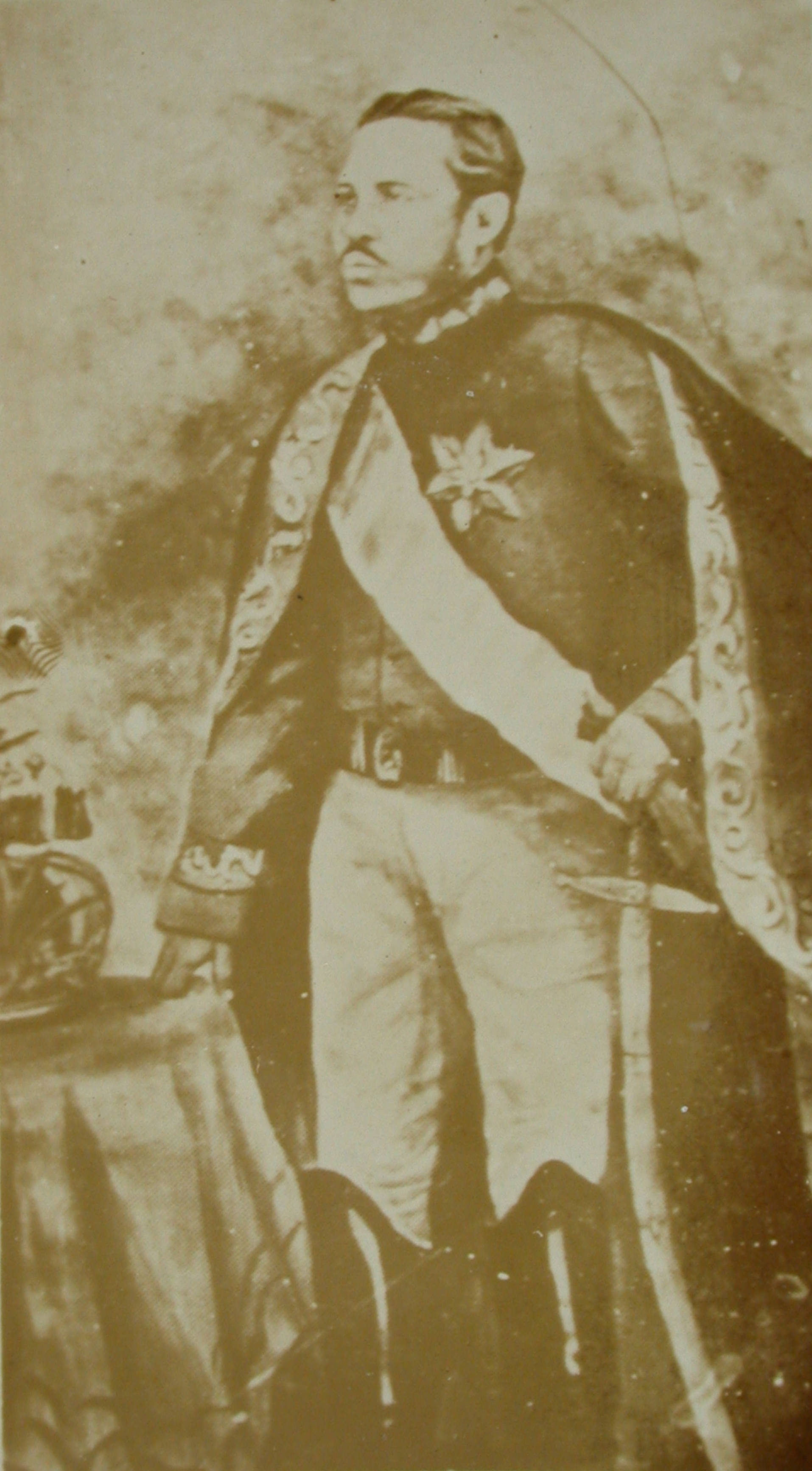 Radama 2, Antananarivo, Madagascar, ca.1862